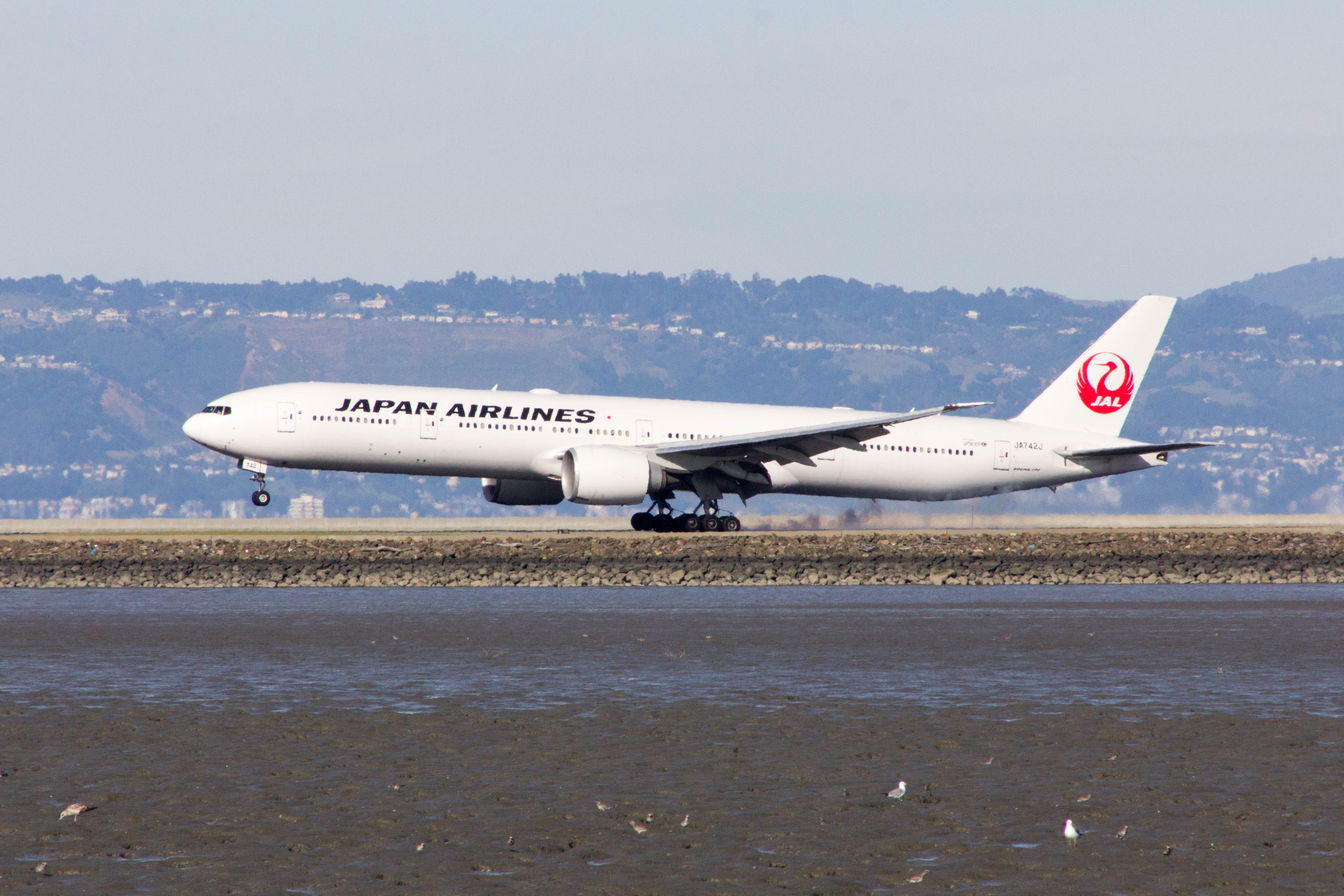 Japan Airlines Boeing 777-346ER JA742J